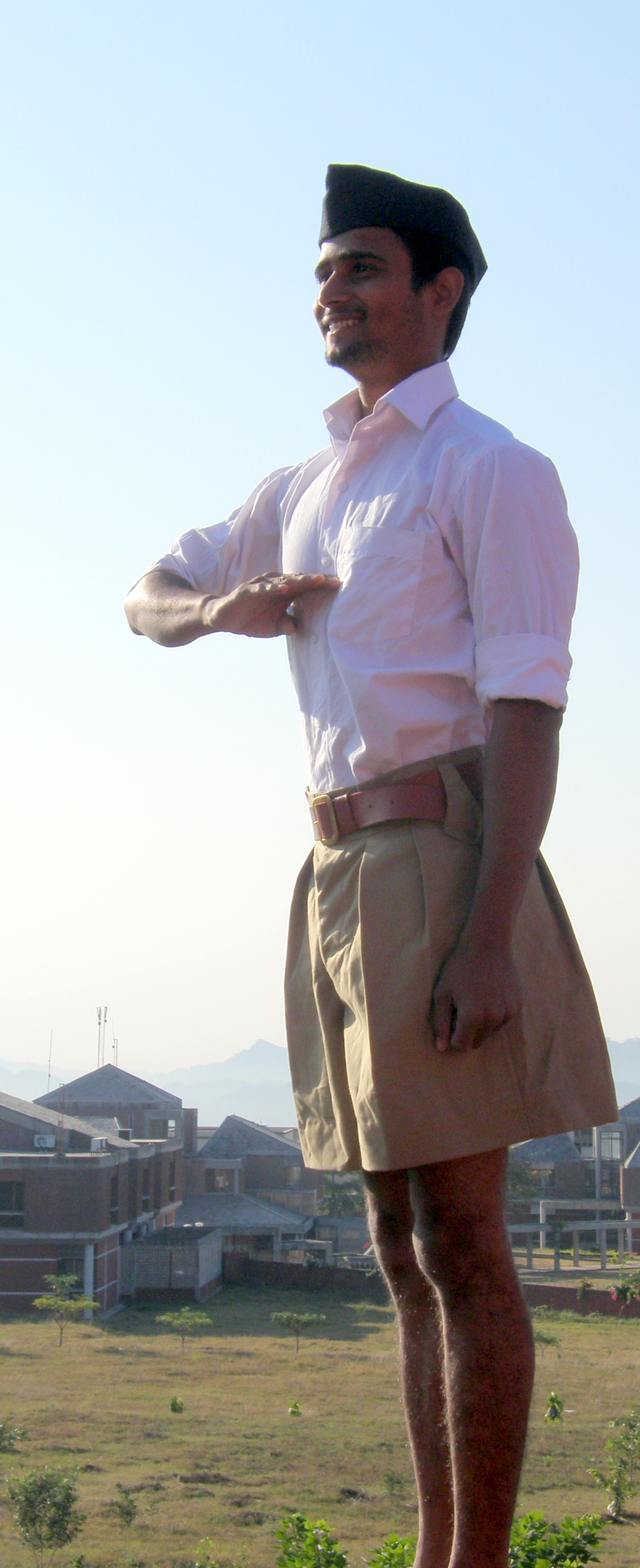 RSS swayamsevak in Kashmir.